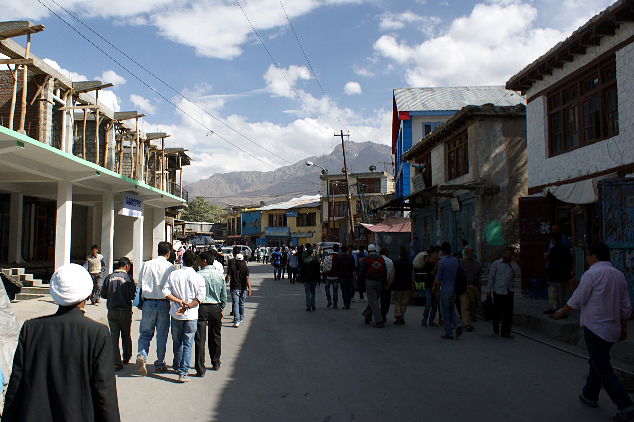 Kargil Bazaar Road